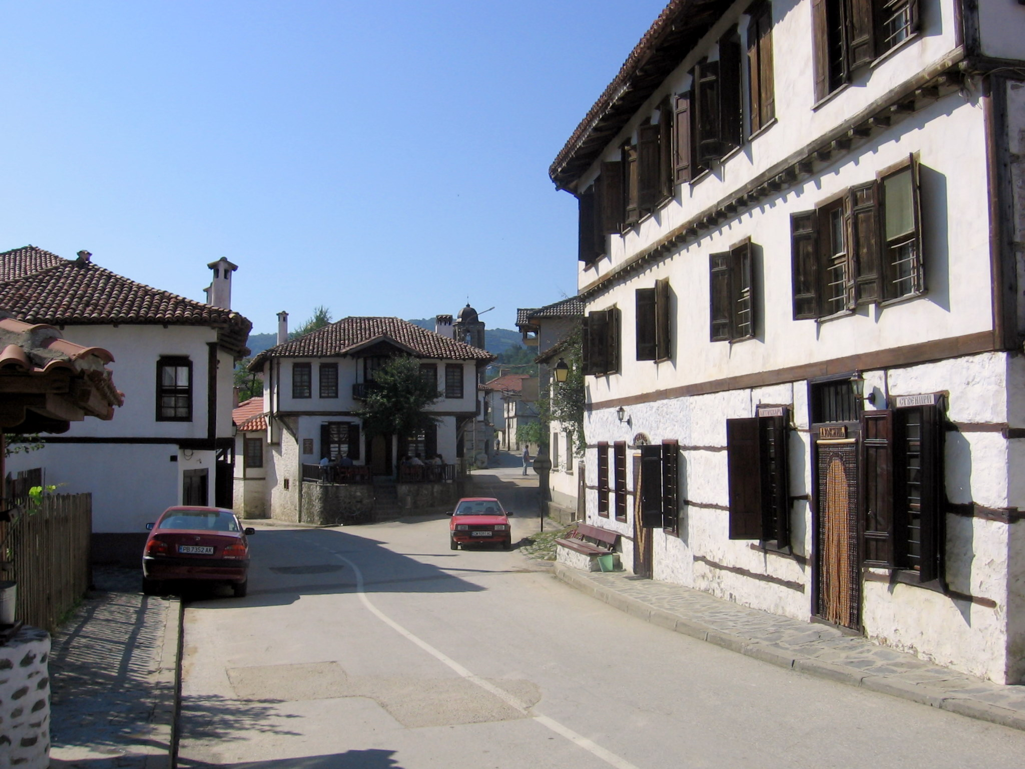 The main street in the Areal complex of Zlatograd, Bulgaria